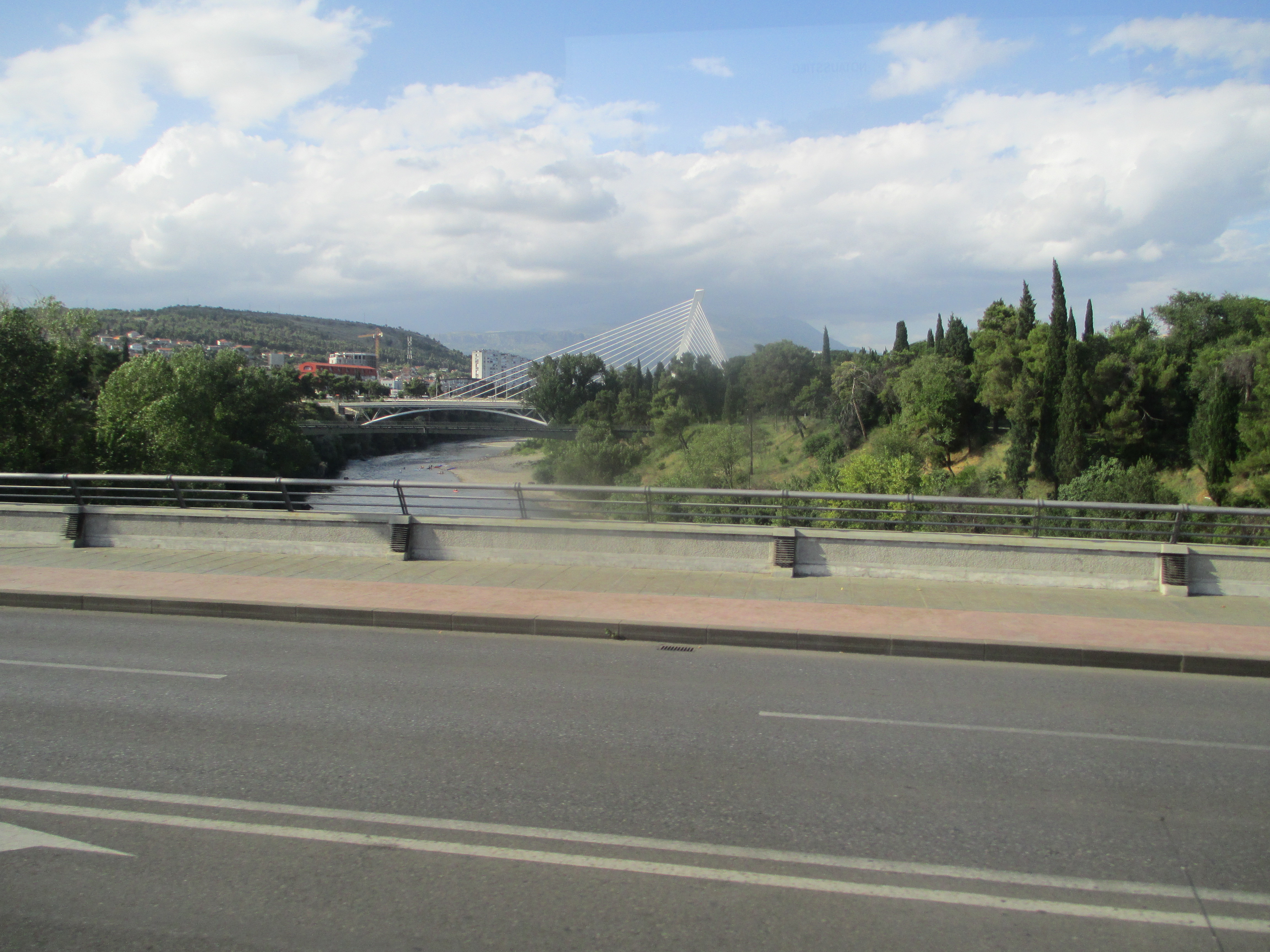 גשר המילניום בפודגוריצה